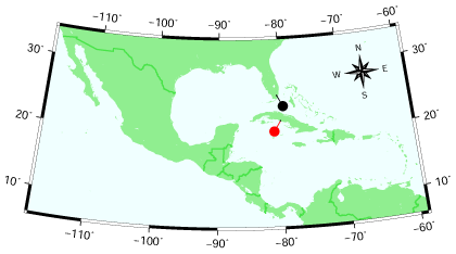 Fossil distribution of the pristine mustached bat (Pteronotus pristinus, red, Trinidad, Cuba) and Pteronotus cf. pristinus (black, Monkey Jungle, Florida, USA). The map was created using the Generic Mapping Tools, GMT, version 5.1.1 and processed with Adobe Photoshop Elements.